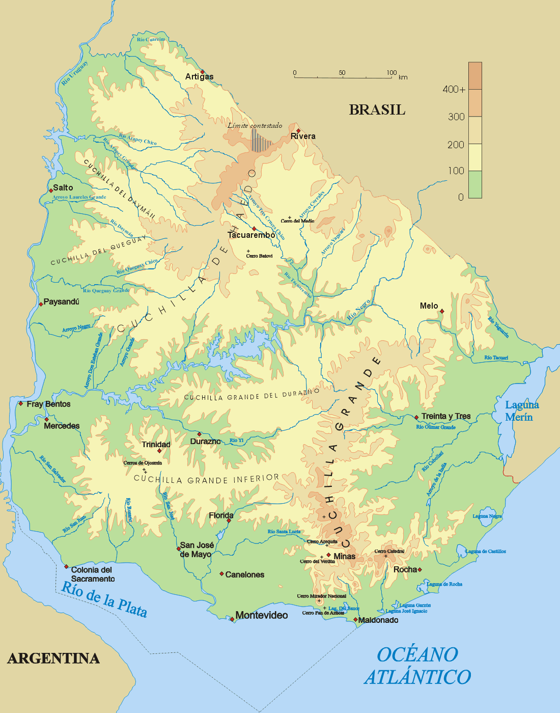 Topographical map of Uruguay